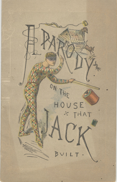 Persistent URL: Subject (TGM): Factories; Hosiery industry; Poetry; Silk industry; Caricatures; Humorous pictures; Keywords: Corticelli Spool Silk Florence Knitting Silk